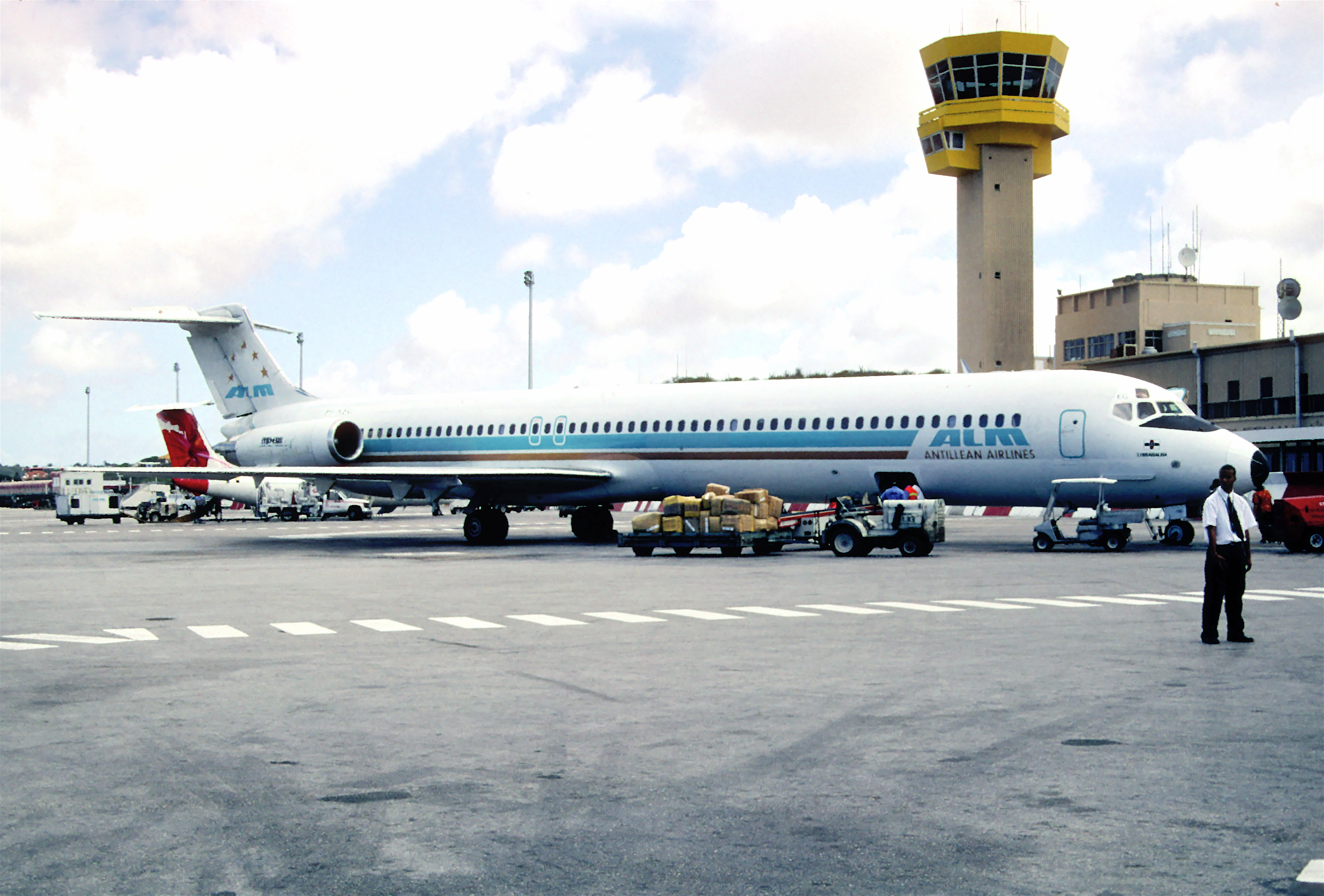 171ab - ALM Antillean Airlines MD-82; PJ-SEG@CUR;12.03.2002